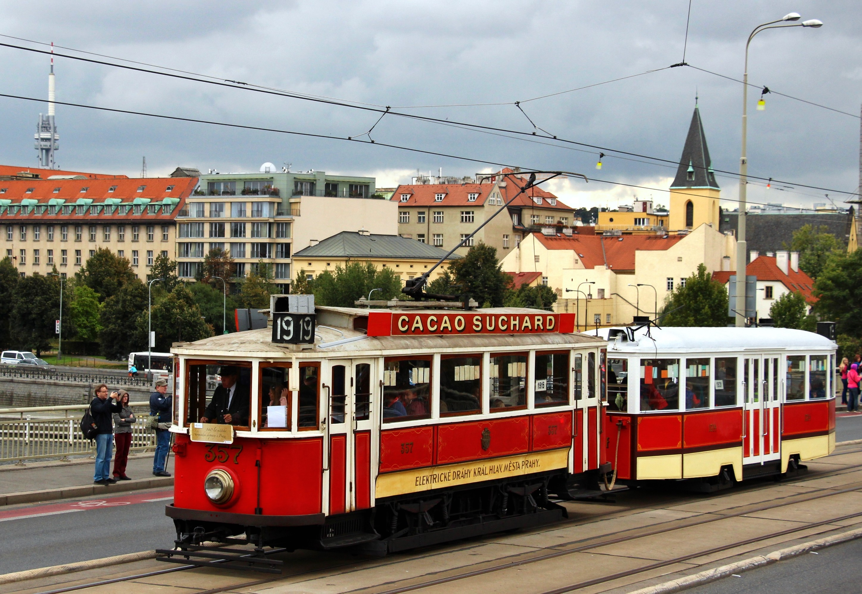 Tram 357, anniversary of 140 years of public transport in Prague, Czech Republic